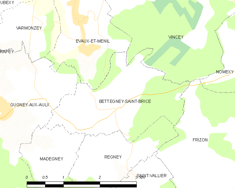 Map of French municipality Bettegney-Saint-Brice